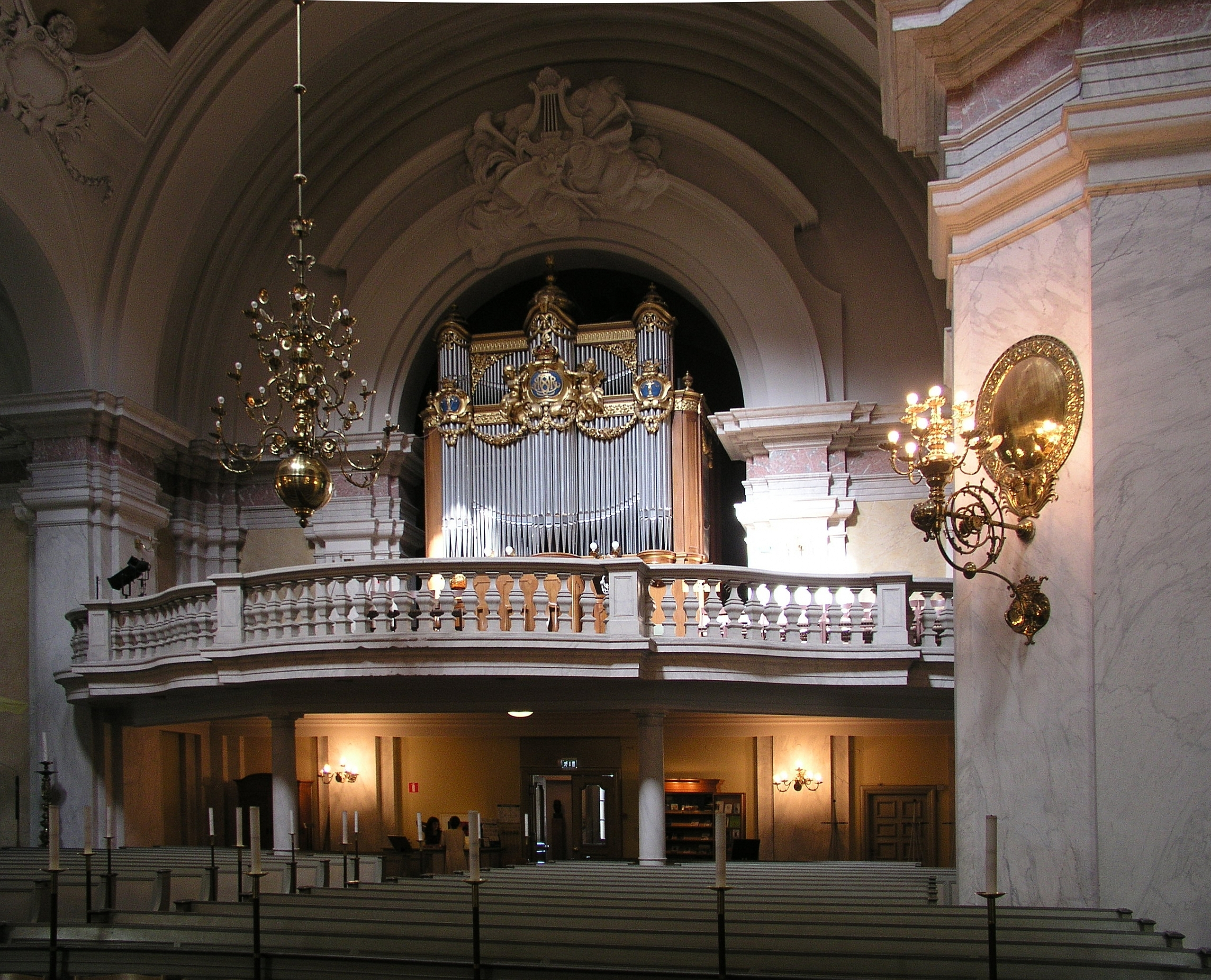 Gustaf Vasakyrkan. Organ.